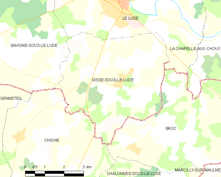 Map of French municipality